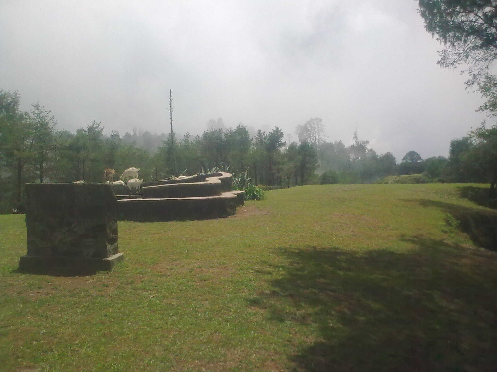 This was the venue for Nagarkot Tourist Fair 2008.